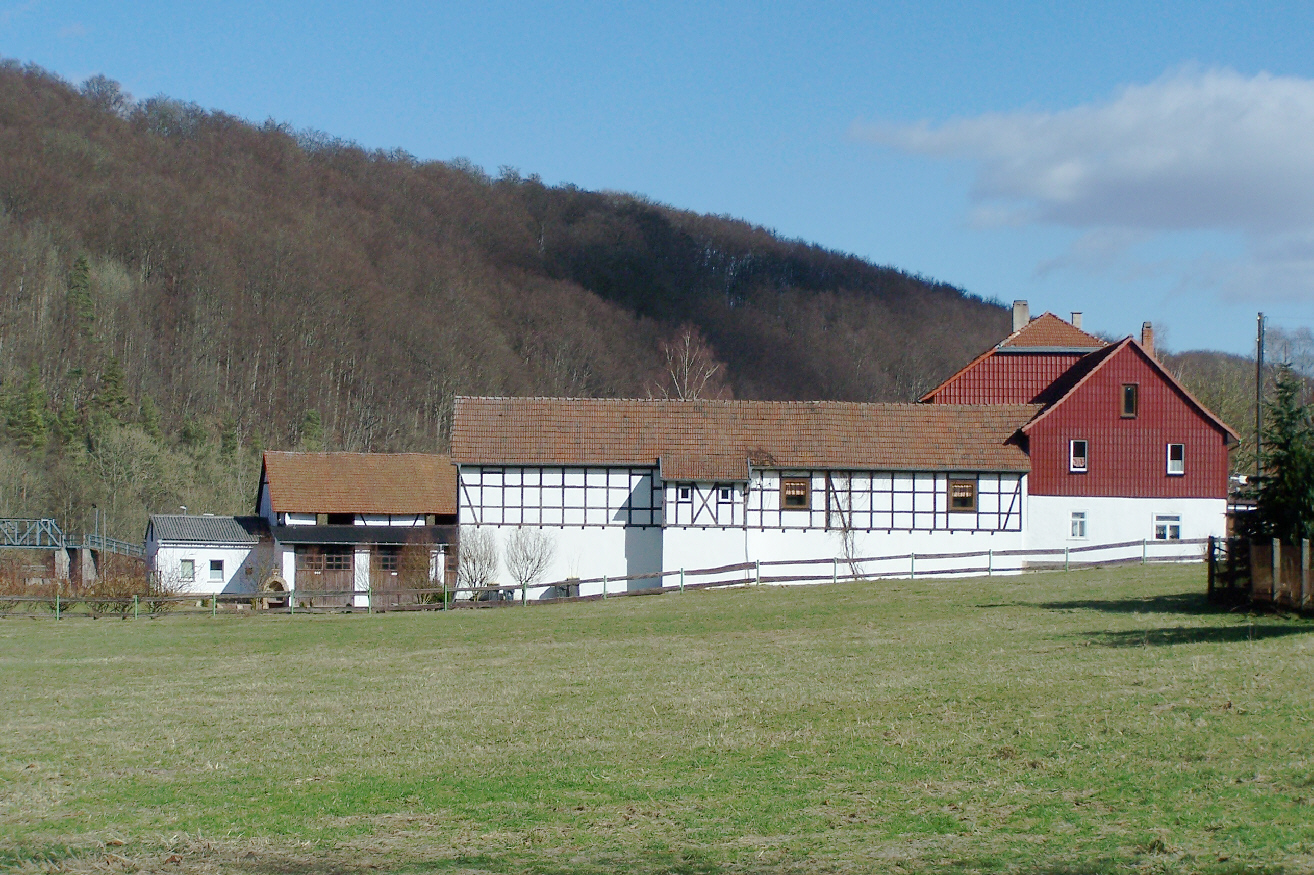 In Buchenau village.